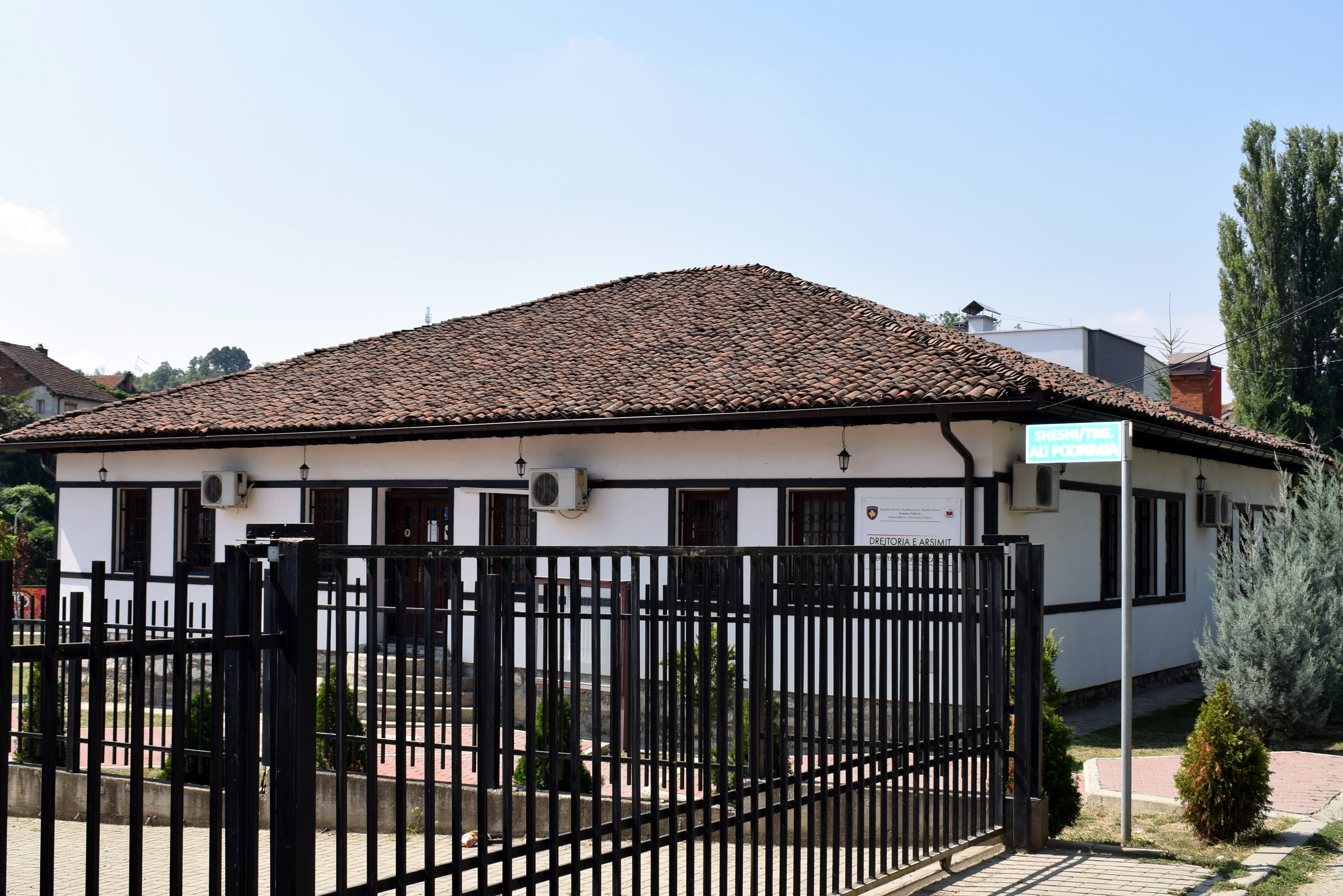 Mejtepi Ruzhdie